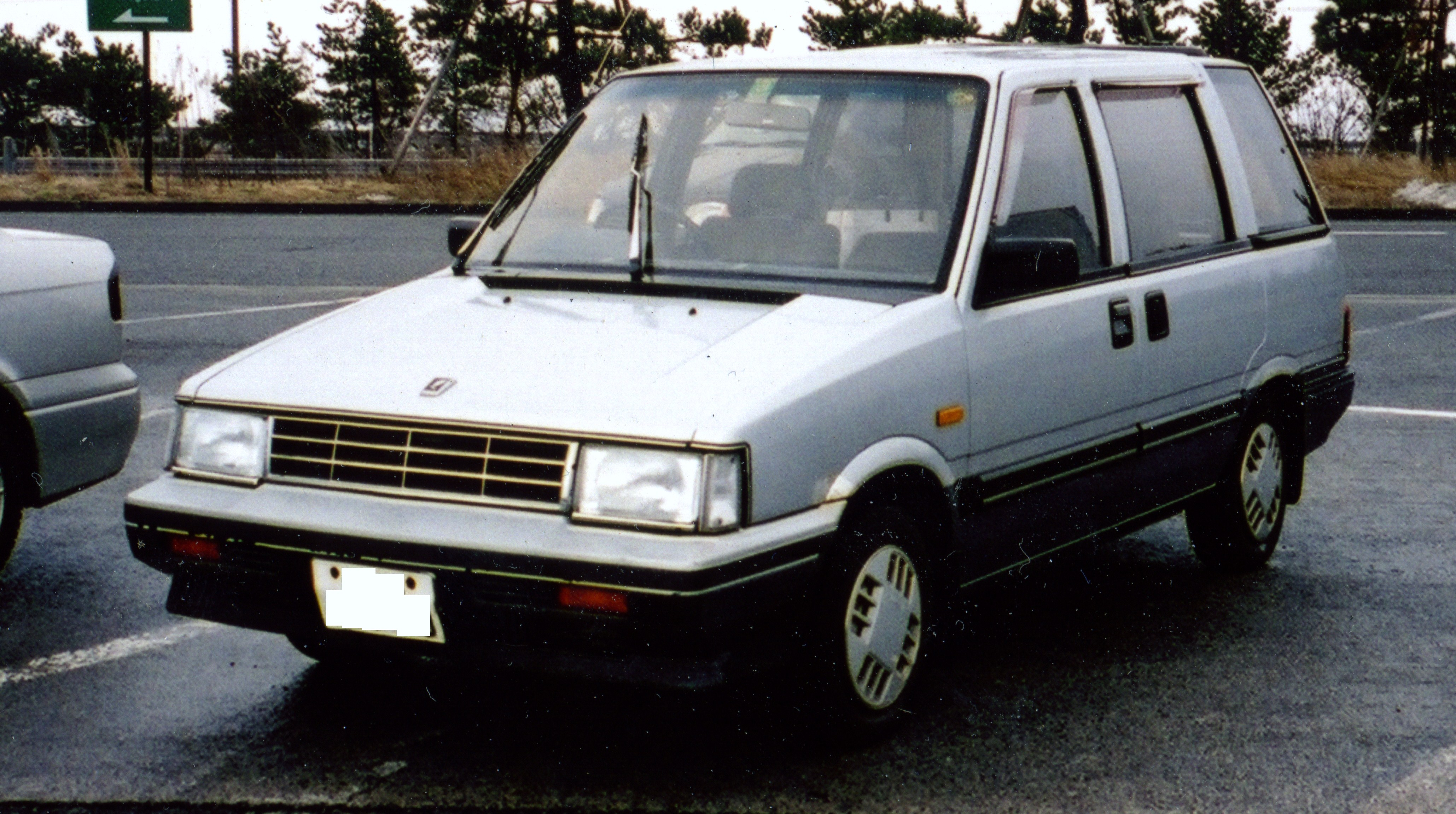 Nissan Prairie 1800 JW-G Extra 8-passenger, 4-speed manual column shift (1800cc CA18S engine). First registered in March 1988.